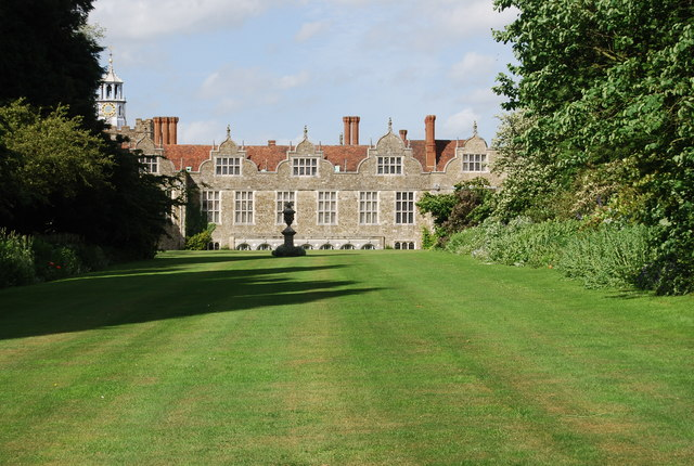 Knole House, SW Wing